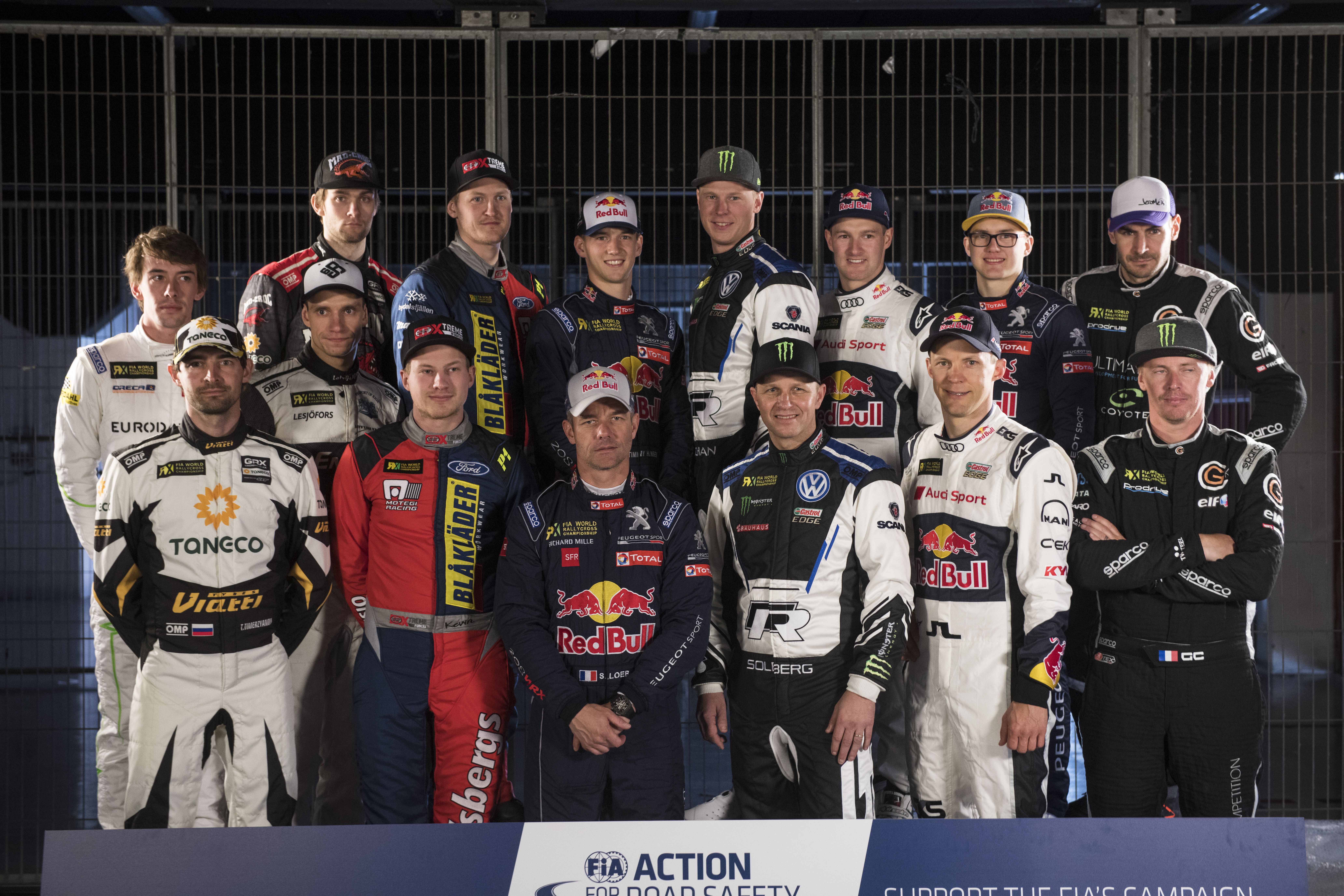 2018 FIA World Rallycross Championship // Round 1, Barcelona // Credit: EKS Audi Sport